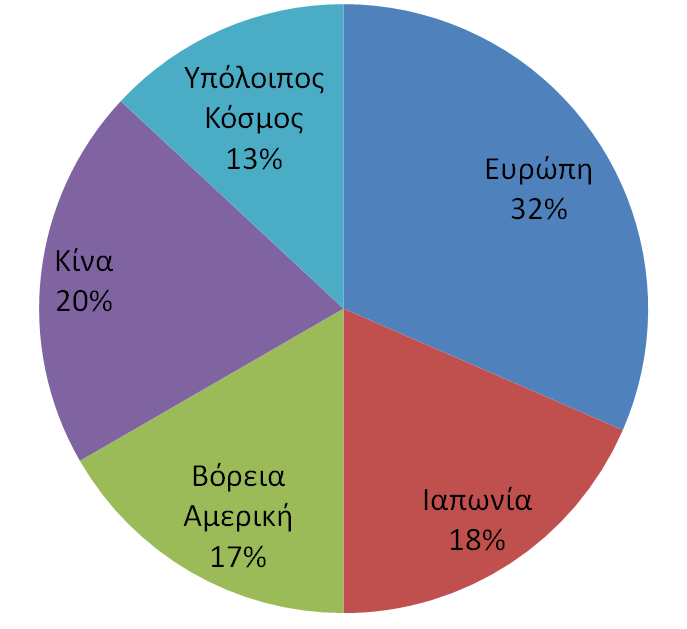 Pt demand by region